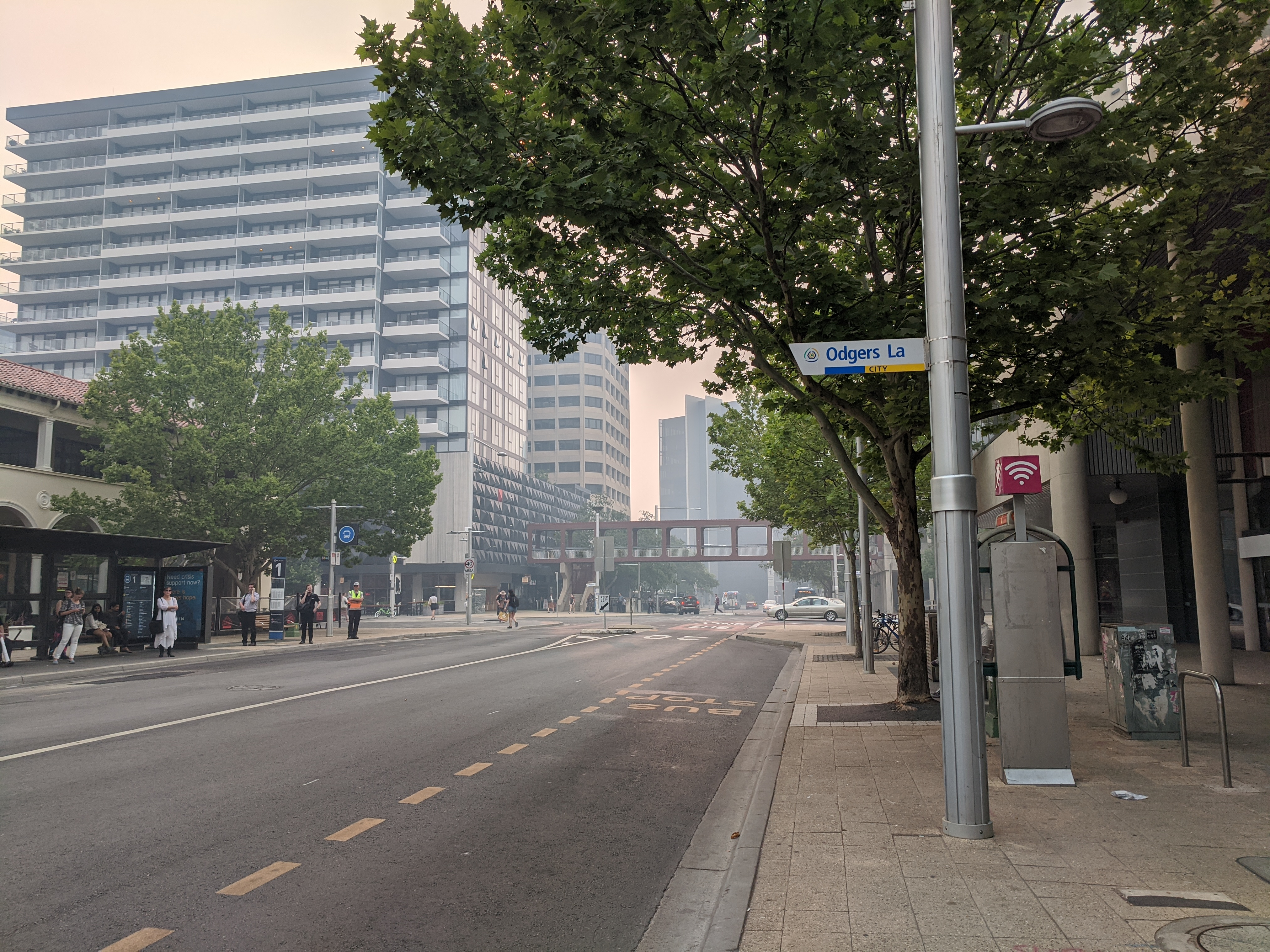 Alinga Street on day when Canberra was badly affected by bushfire smoke